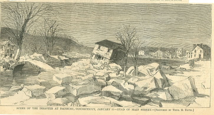 "Scene of the Disaster at Danbury, Connecticut, January 31 - Head of Main Street." Engraving accompanying article in Harper's Weekly magazine, February 20, 1869, about reservoir disaster in and around Danbury Source: eBay auction page